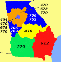 Map showing area codes for the state of Georgia in 7 colors.